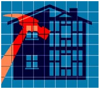 Architecture framework If you have ever remodeled your home, you know how important building codes, blueprints, and city or county inspections are to successfully complete the project. The architect operates within a "framework" of building codes, preparing blueprints for each phase of the project, from the structural changes to the size and layout of the rooms. Detailed drawings specify plumbing, electrical, and building construction information for the entire structure. Enterprise Architecture works in a similar manner. An architecture framework for Information Technology (IT) affects every aspect of the enterprise. An Enterprise Architecture framework is similar to building codes that ensure the building is soundly constructed. The IT governance bodies and procedures serve as the city and county inspectors for building improvement projects. Frameworks contain models and standards that will be used to develop IT architecture descriptions. The architecture description is the blueprint.